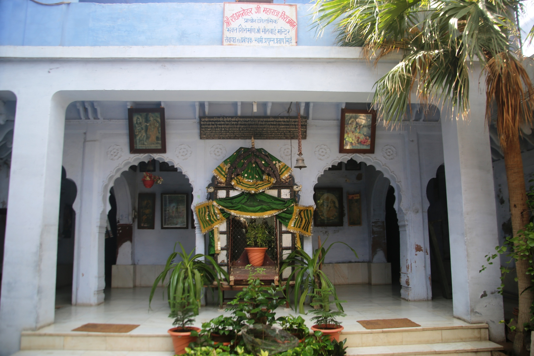 The image of meera bai's residence in vrindavan, She spent here approx 14 years and creat about more then 3000 poems in the love of lord krishna.